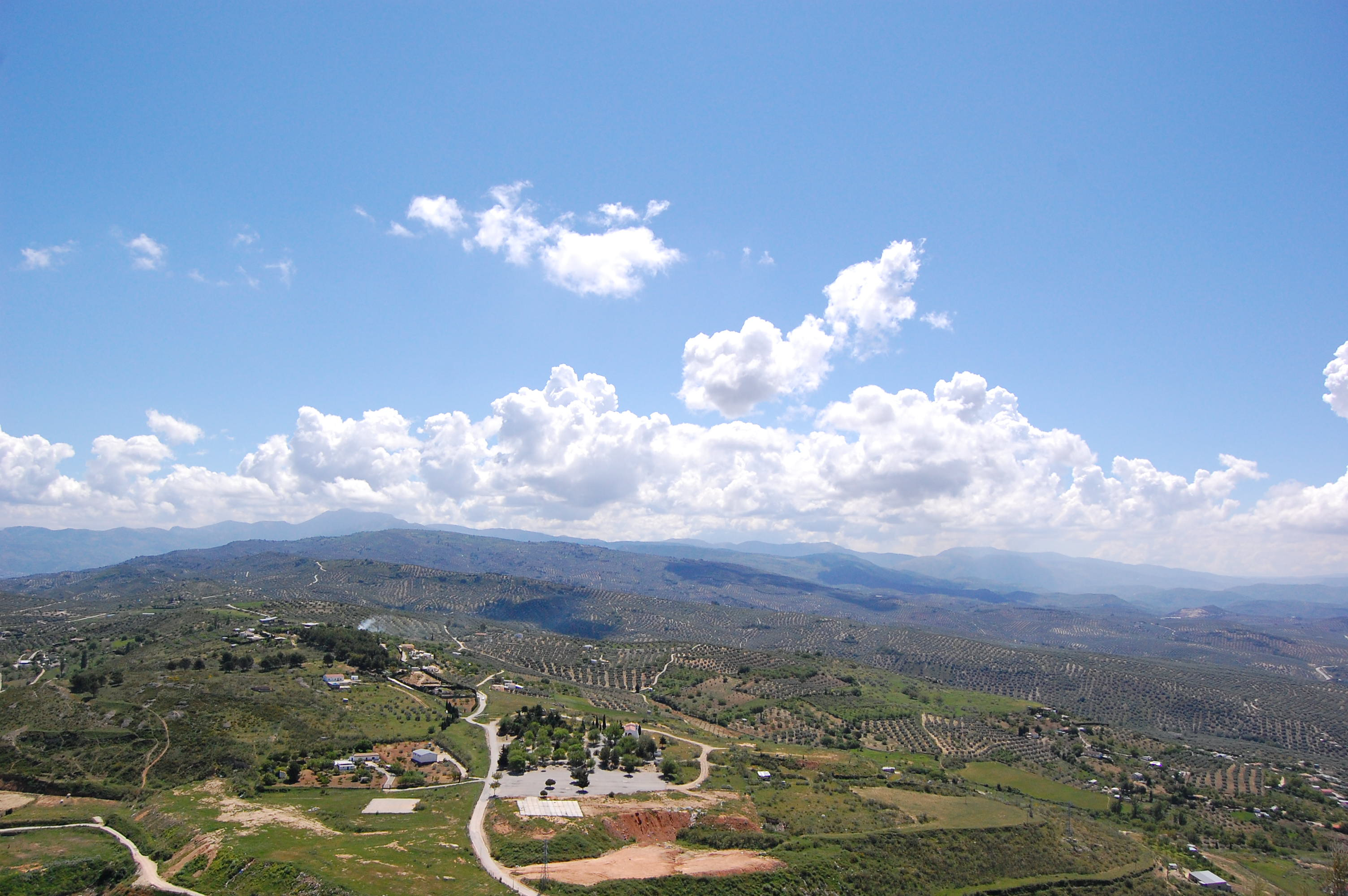 Panoramic view of the Martos countryside from the Rock